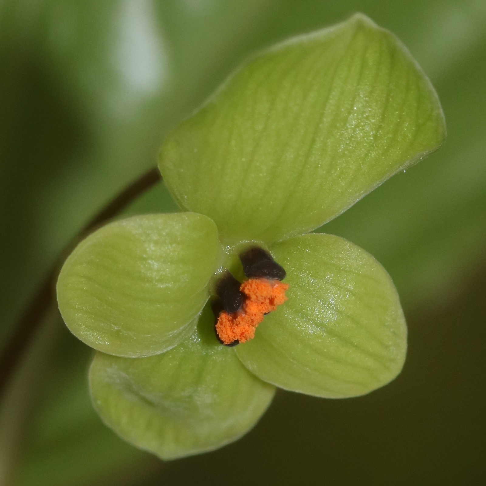 Croomia heterosepala in Mount Tonmaku, Yumihari Mountains, Shinshiro, Aichi Prefecture, Japan.